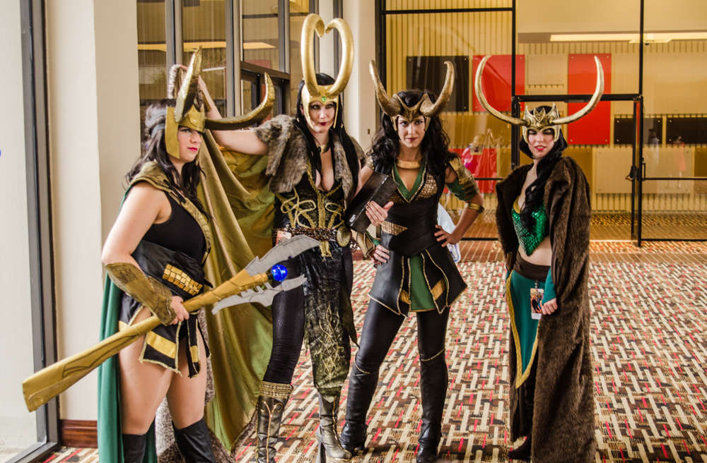 DragonCon 2012 - Marvel and Avengers photoshoot